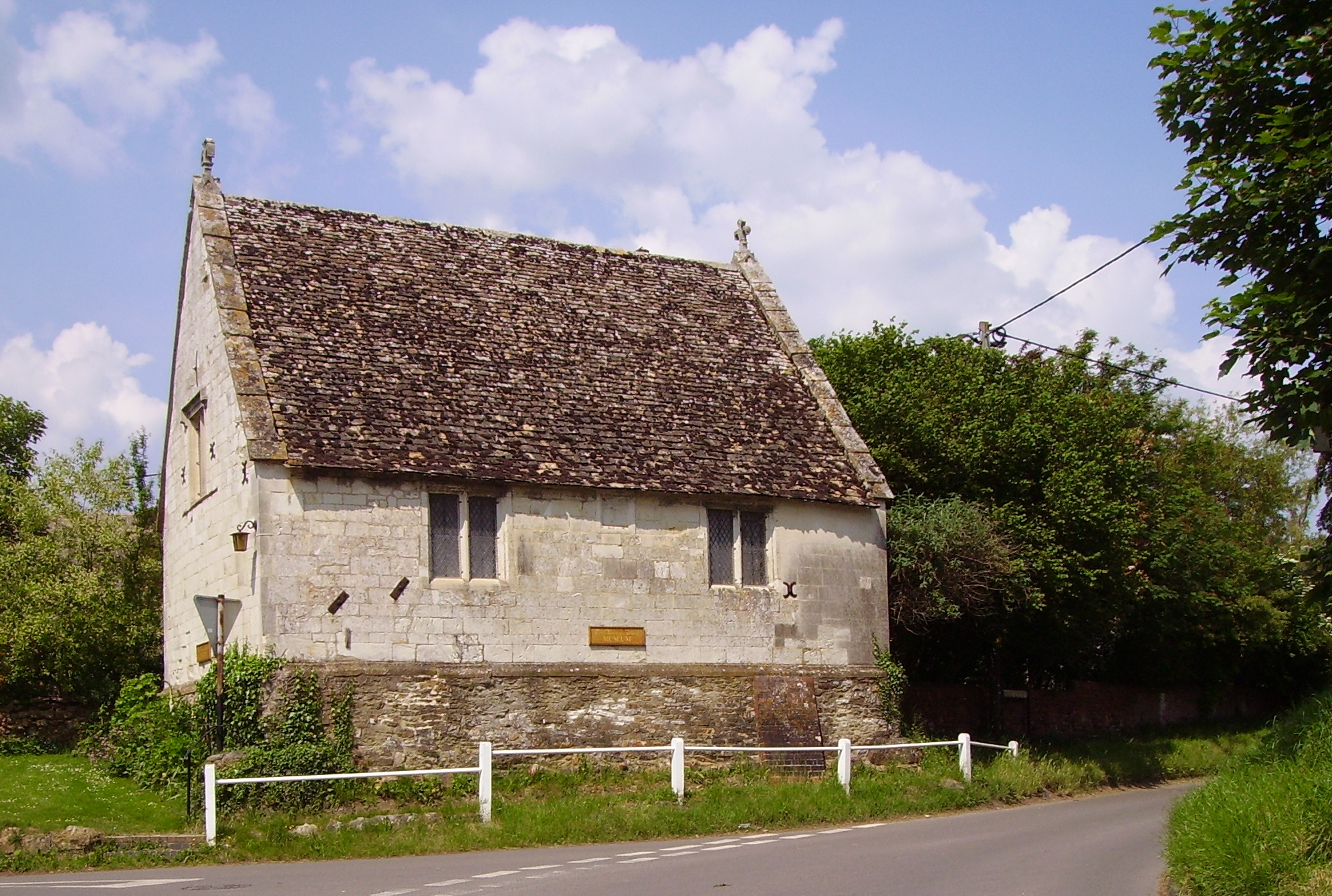 Tom Brown's school museum, Broad Street, Uffington, Oxfordshire (formerly Berkshire)